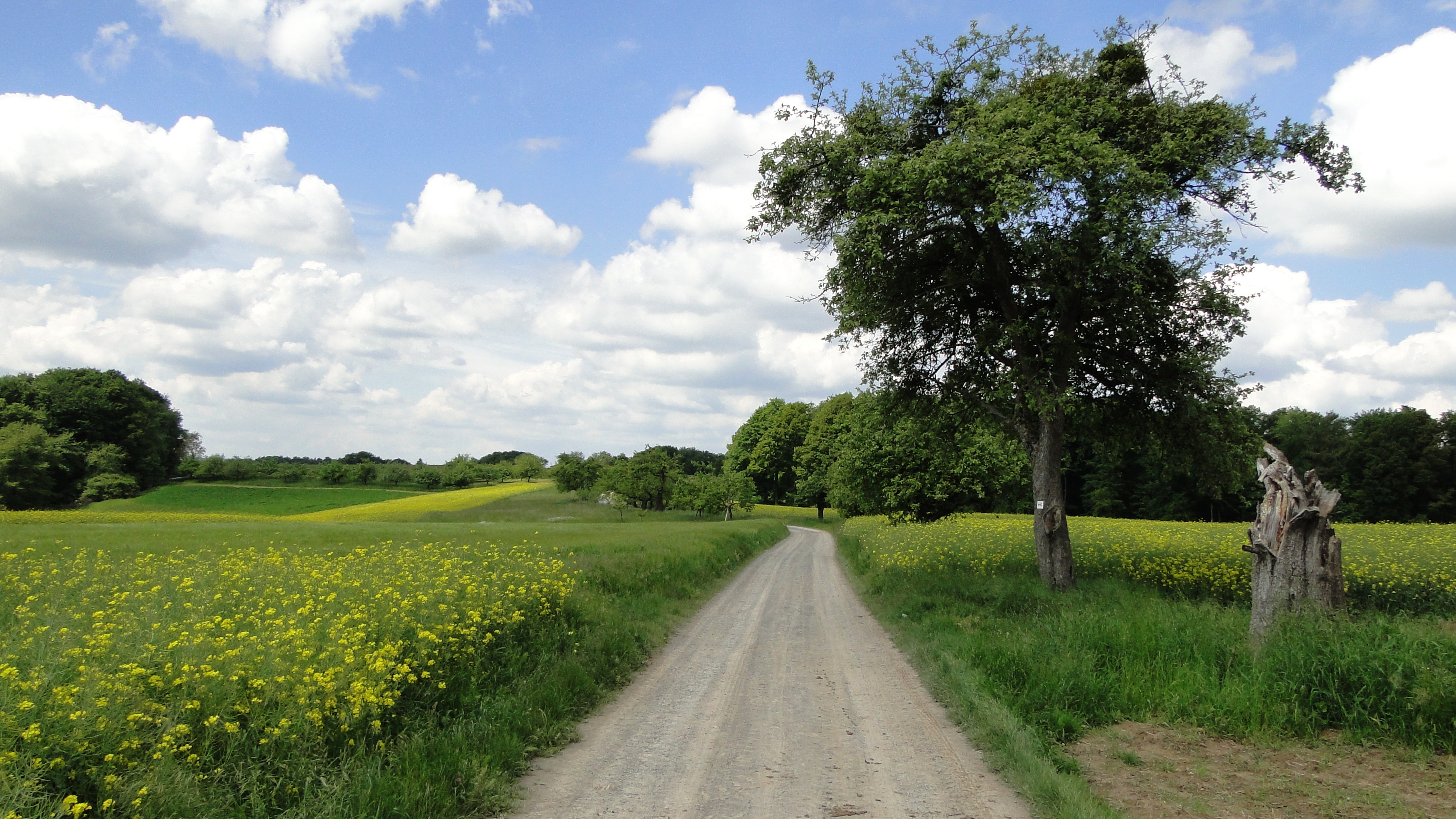 Fruit trees and rapeseed fields on the Salchenbuckel in the Vorspessart near Leidersbach, Lower Franconia, Bavaria, Germany